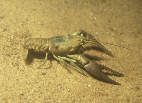 Cambarus aculabrum USFWS photo